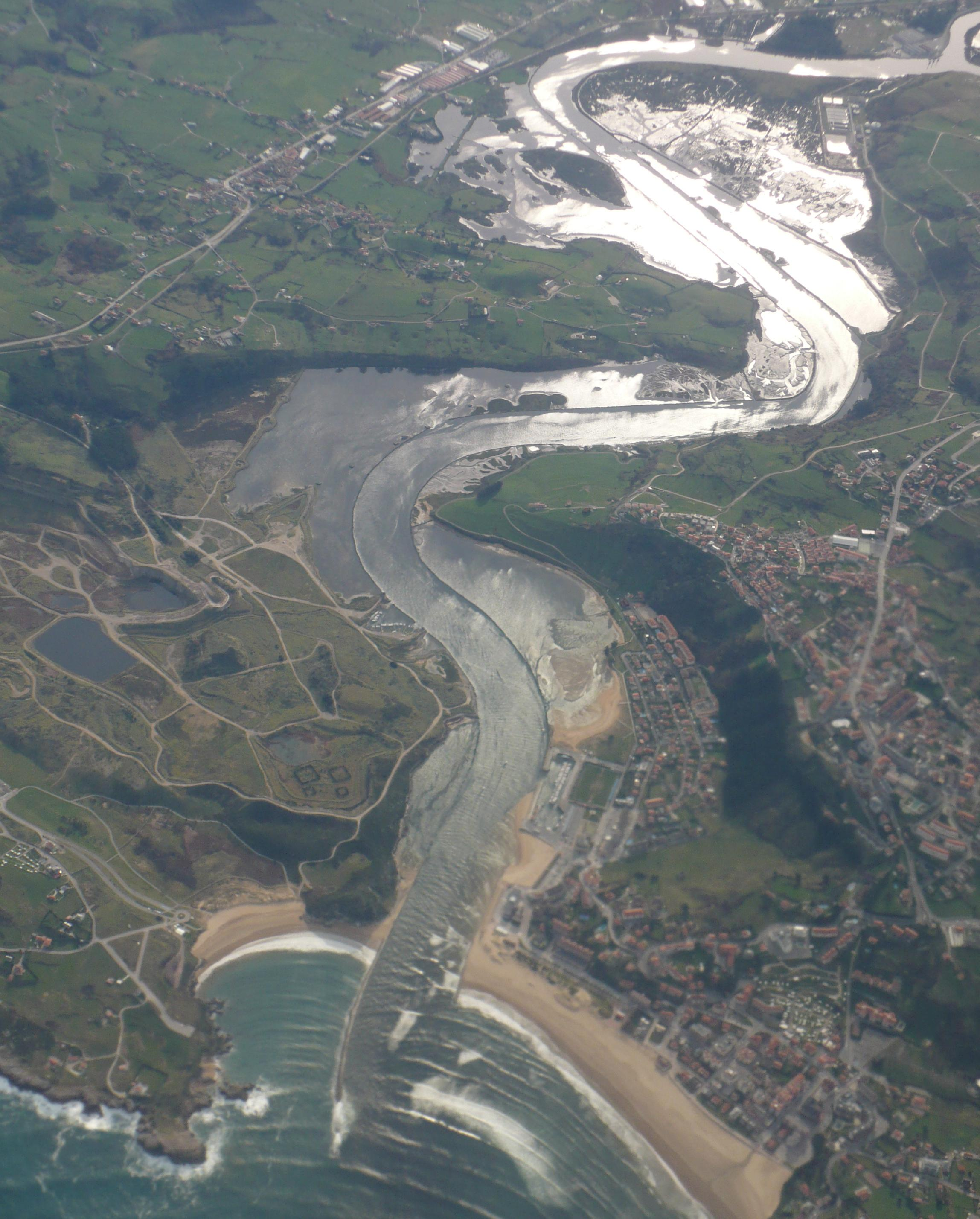 Last stretch of the Saja River, from Requejada (Polanco) to the San Martín de la Arena estuary between Miengo and Suances (Cantabria) and the Cantabrian Sea